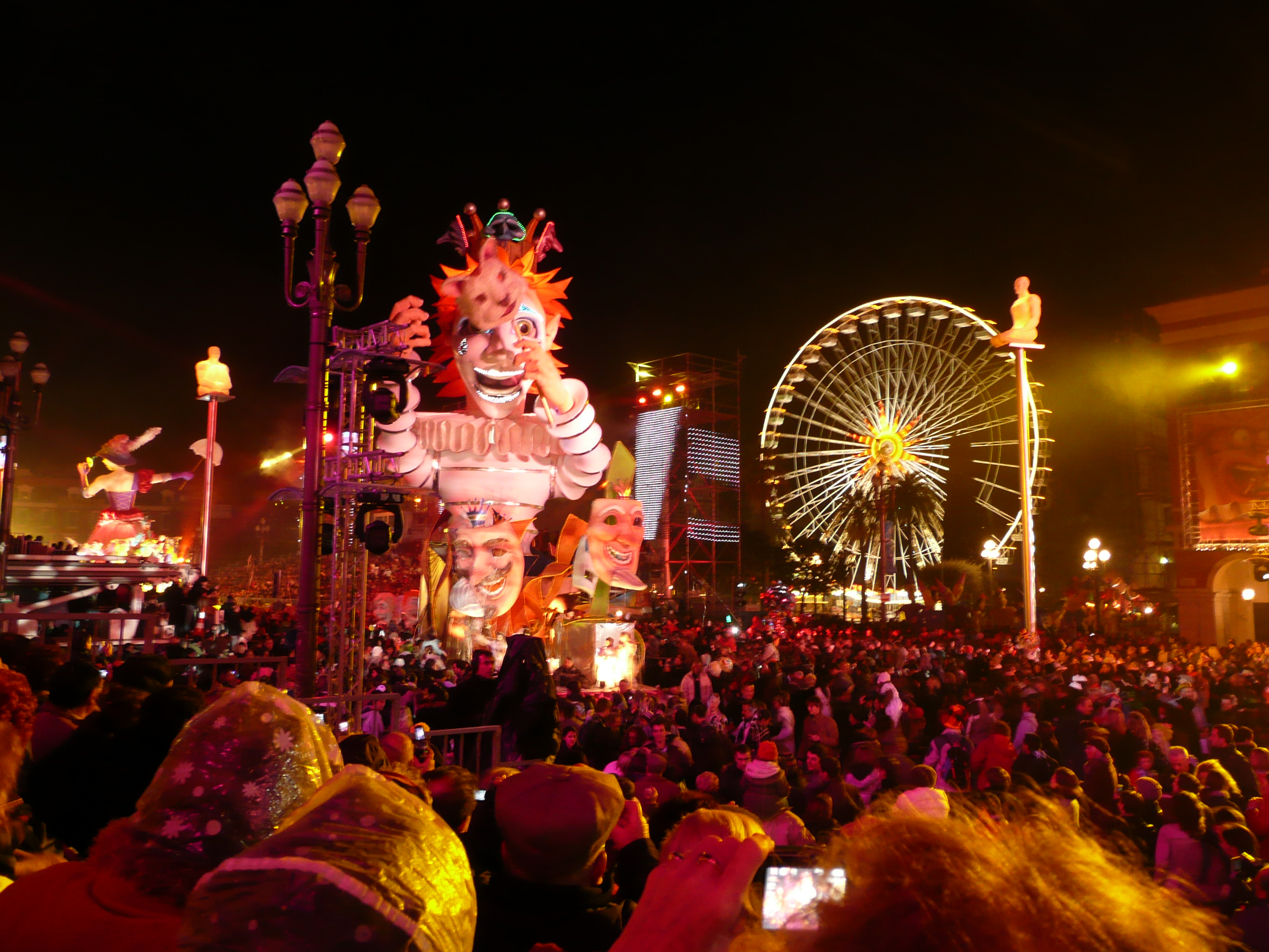 The « corso illuminé » of the Nice Carnival 2009 (France), on the Place Masséna. In the middle : the « Roi des Mascarades » float.